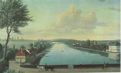 Sortedam Sø seen from Østerbrogade in Copenhagen, Denmark